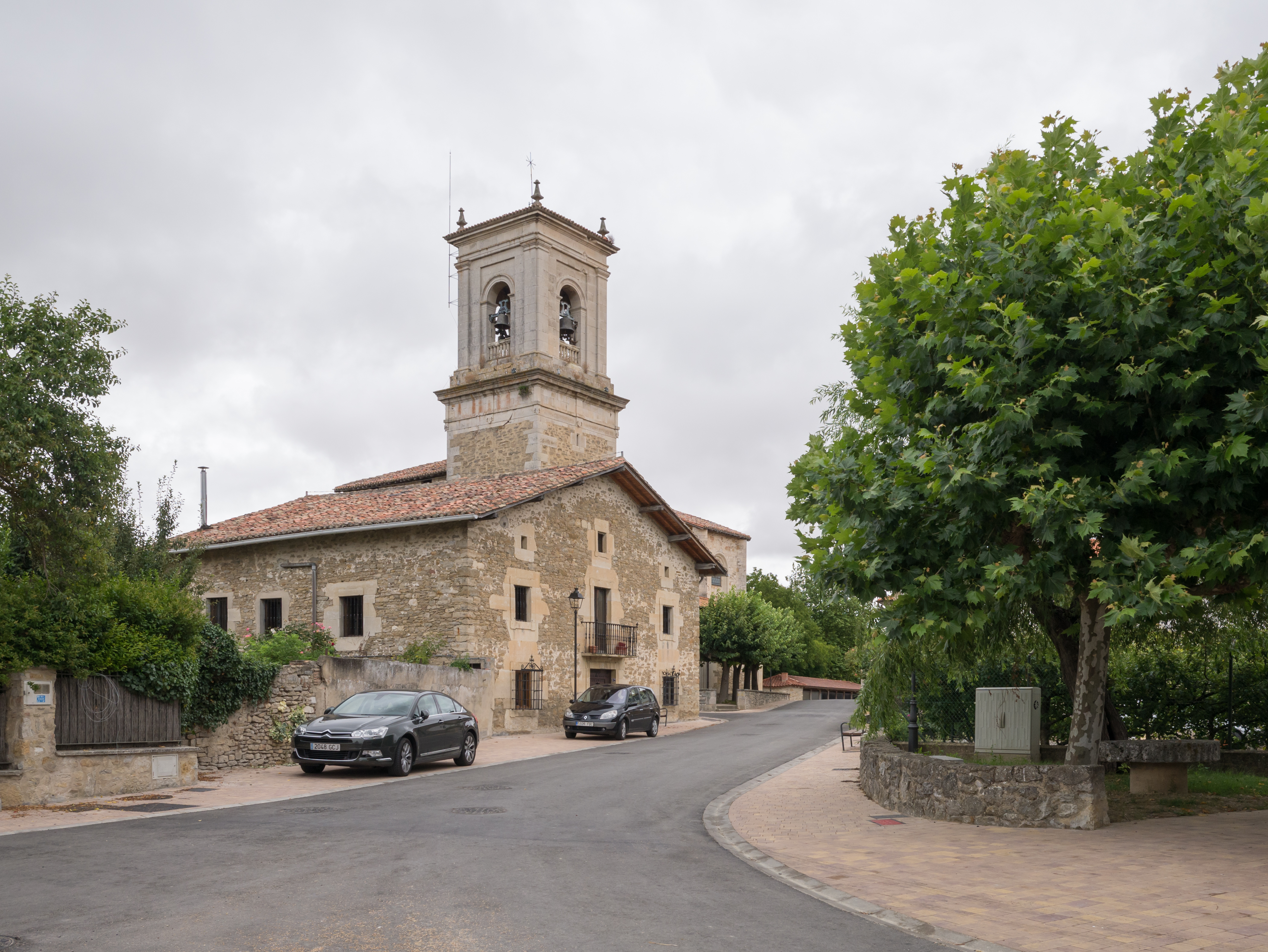 Church of Arkaia. Vitoria-Gasteiz, Basque Country, Spain